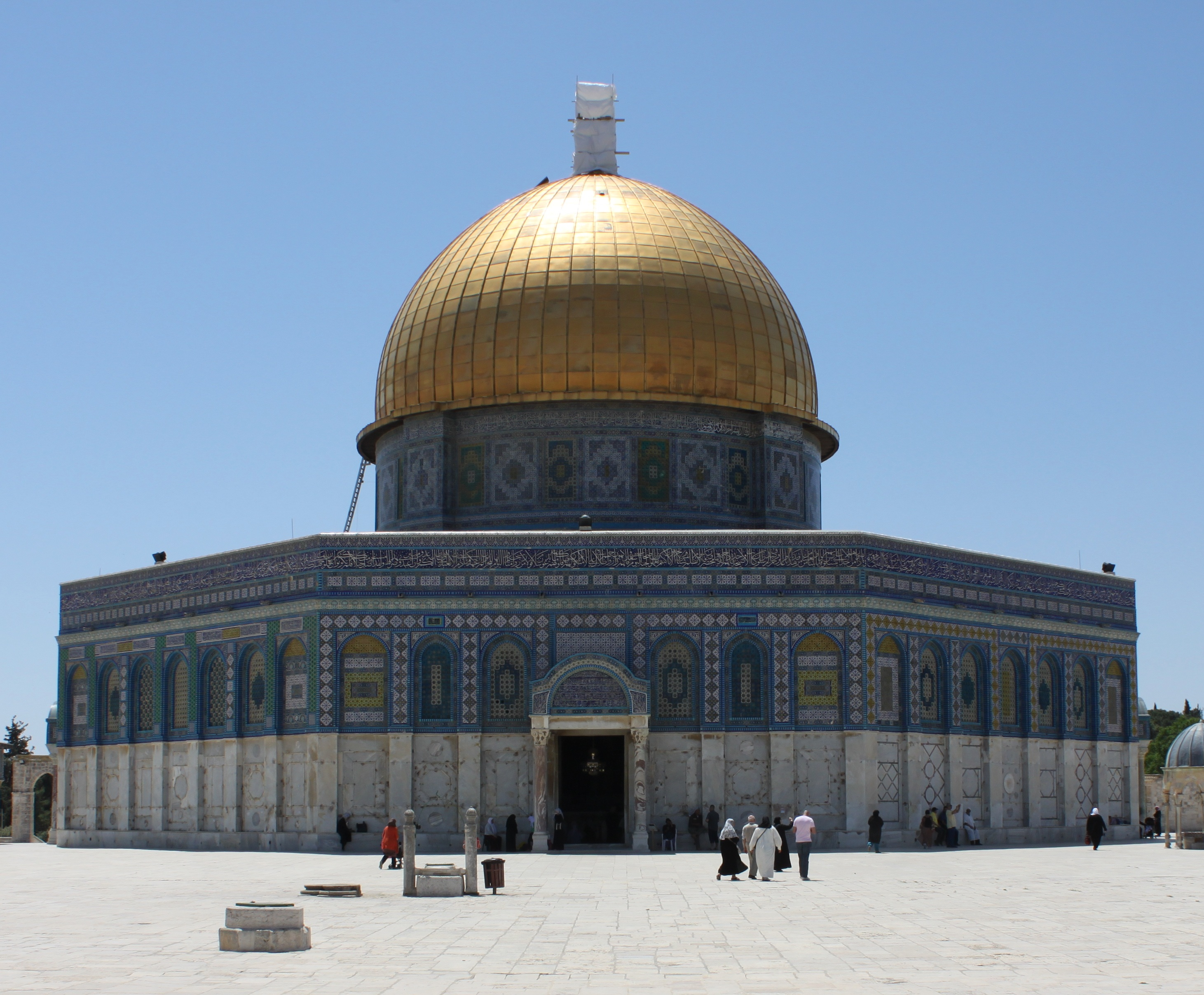 Al Aqsa mosque